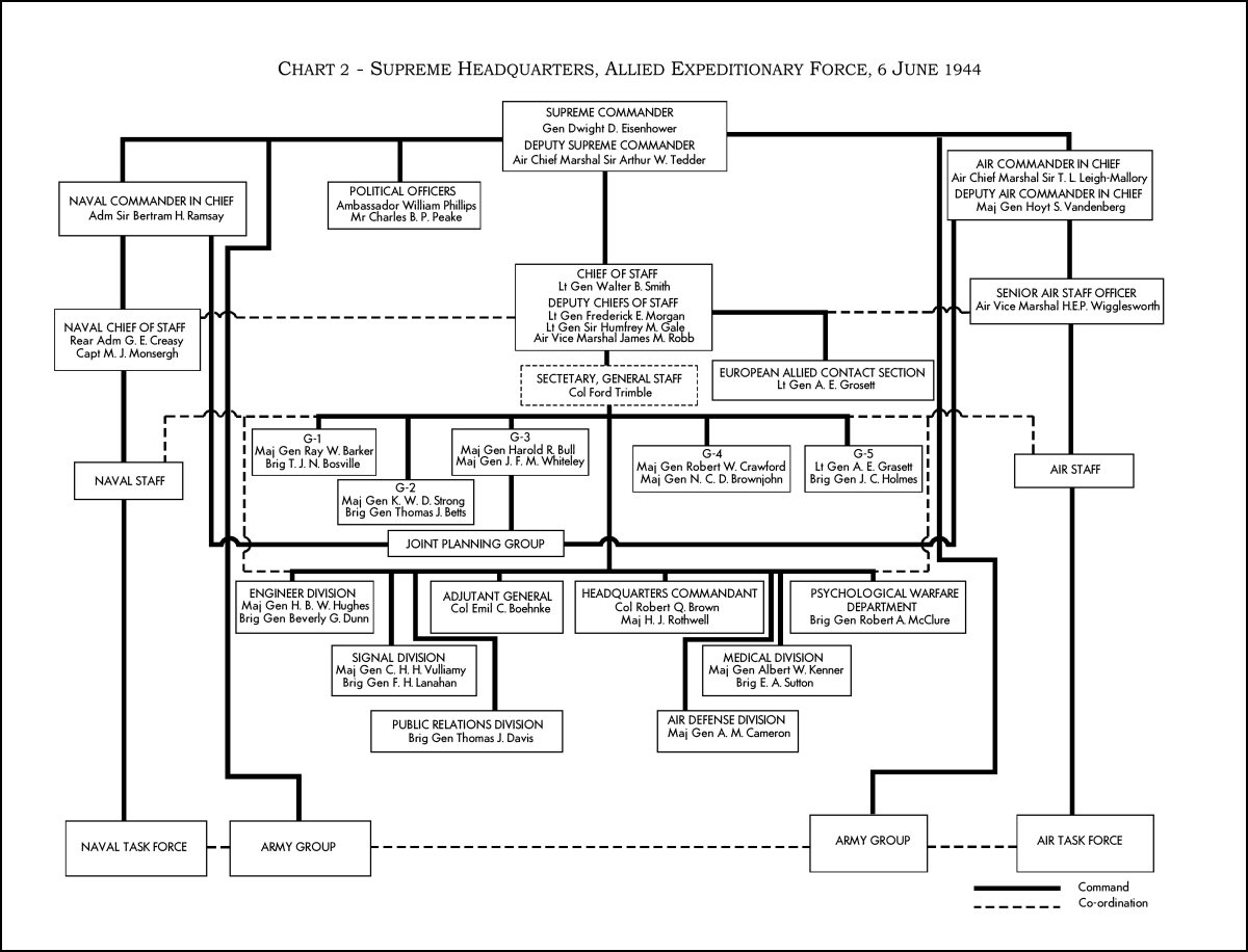 SHAEF organization and chains of command on 6 June 1944 (D-Day for the Normandy landings)